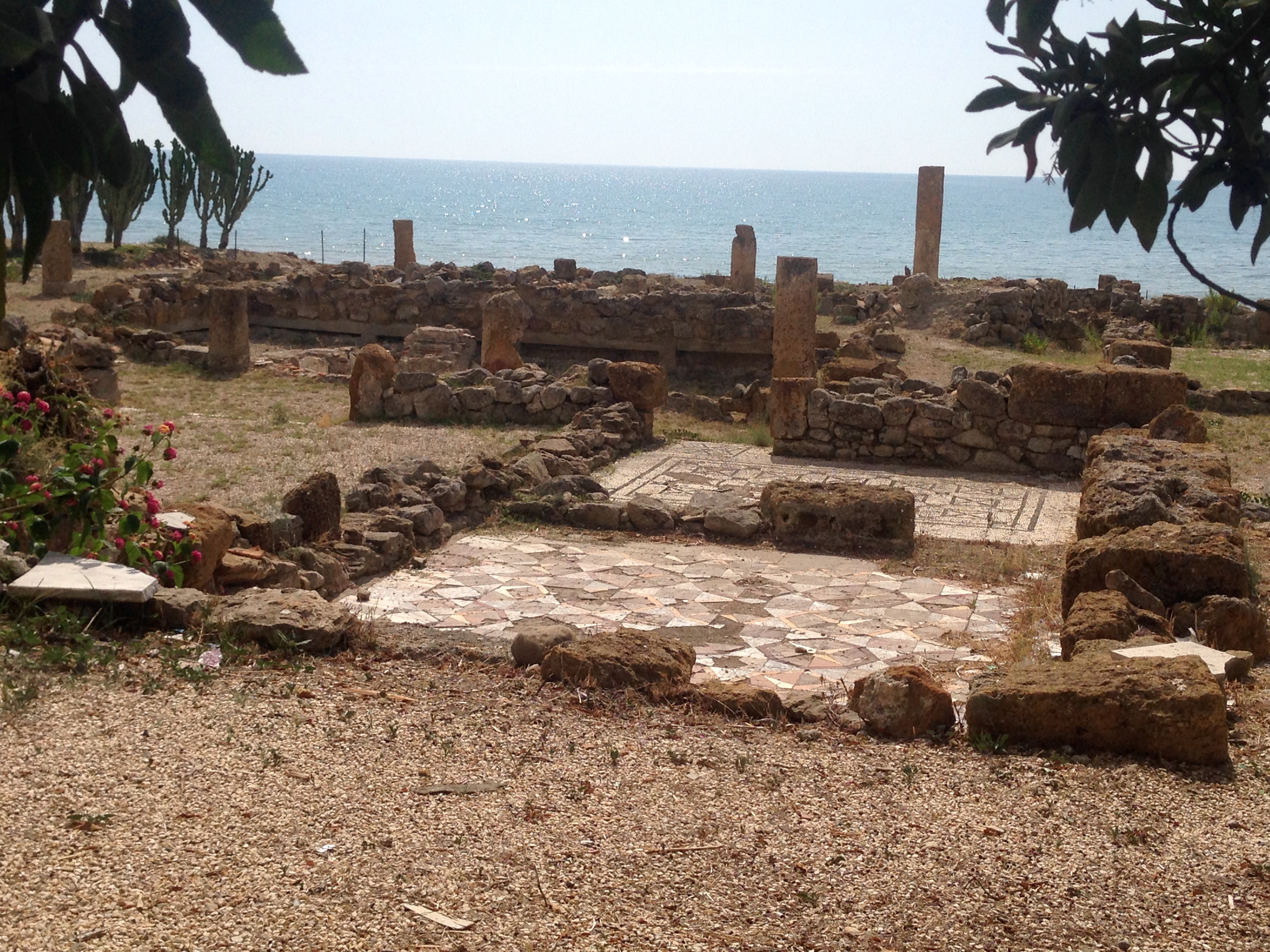 Villa Realmonte 1